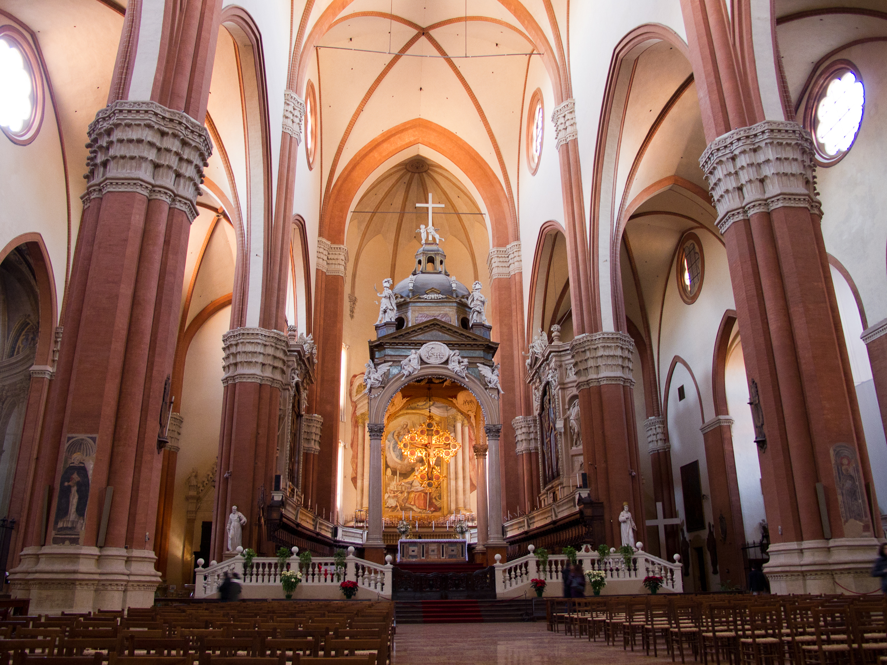 Bologna, San Petronio: Interior View